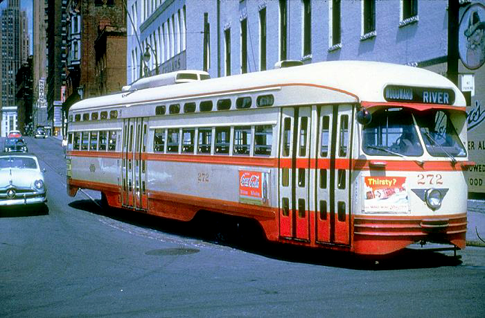 A red-and-white tram numbered 272, with the route names "Woodward" and "River" showing, in Detroit, 1953.